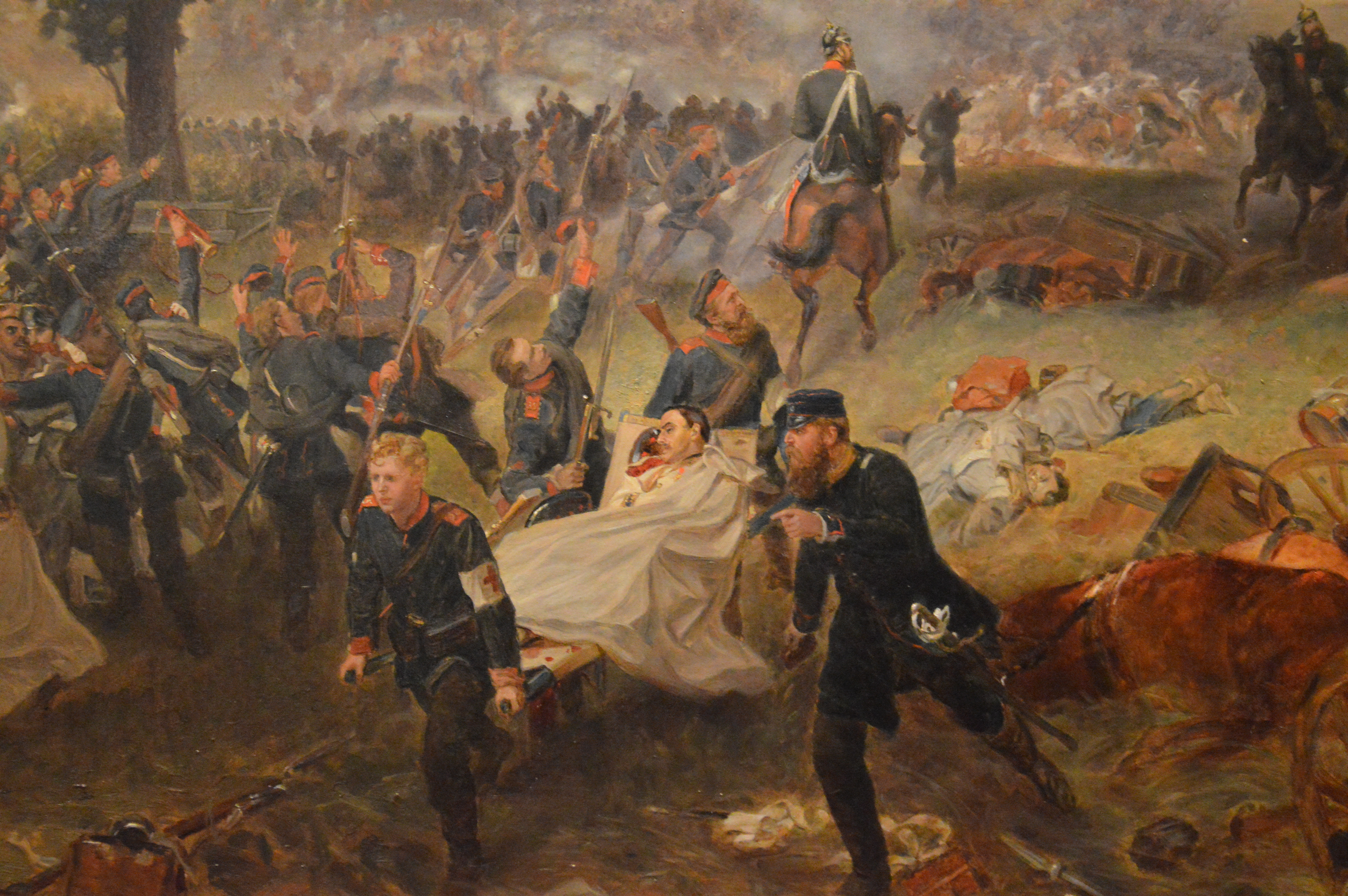 Detail of Georg Bleibtreu's 1868 painting "Die Schlacht von Königgrätz" (The Battle of Königgrätz) in the Deutsches Historisches Museum, Berlin.